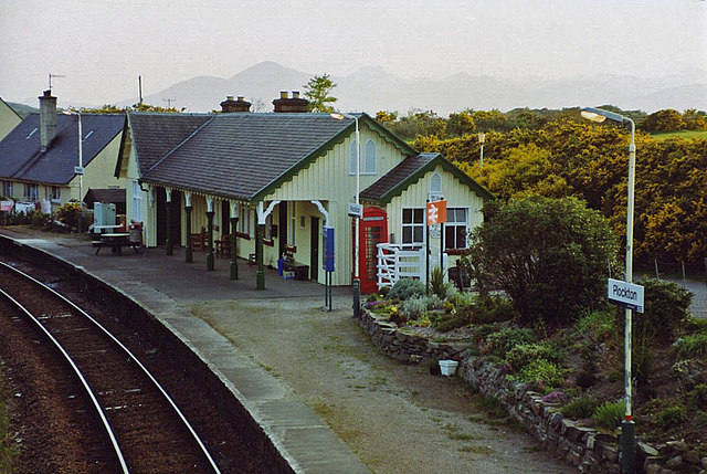 Plockton Station The railway station buildings are now a restaurant.